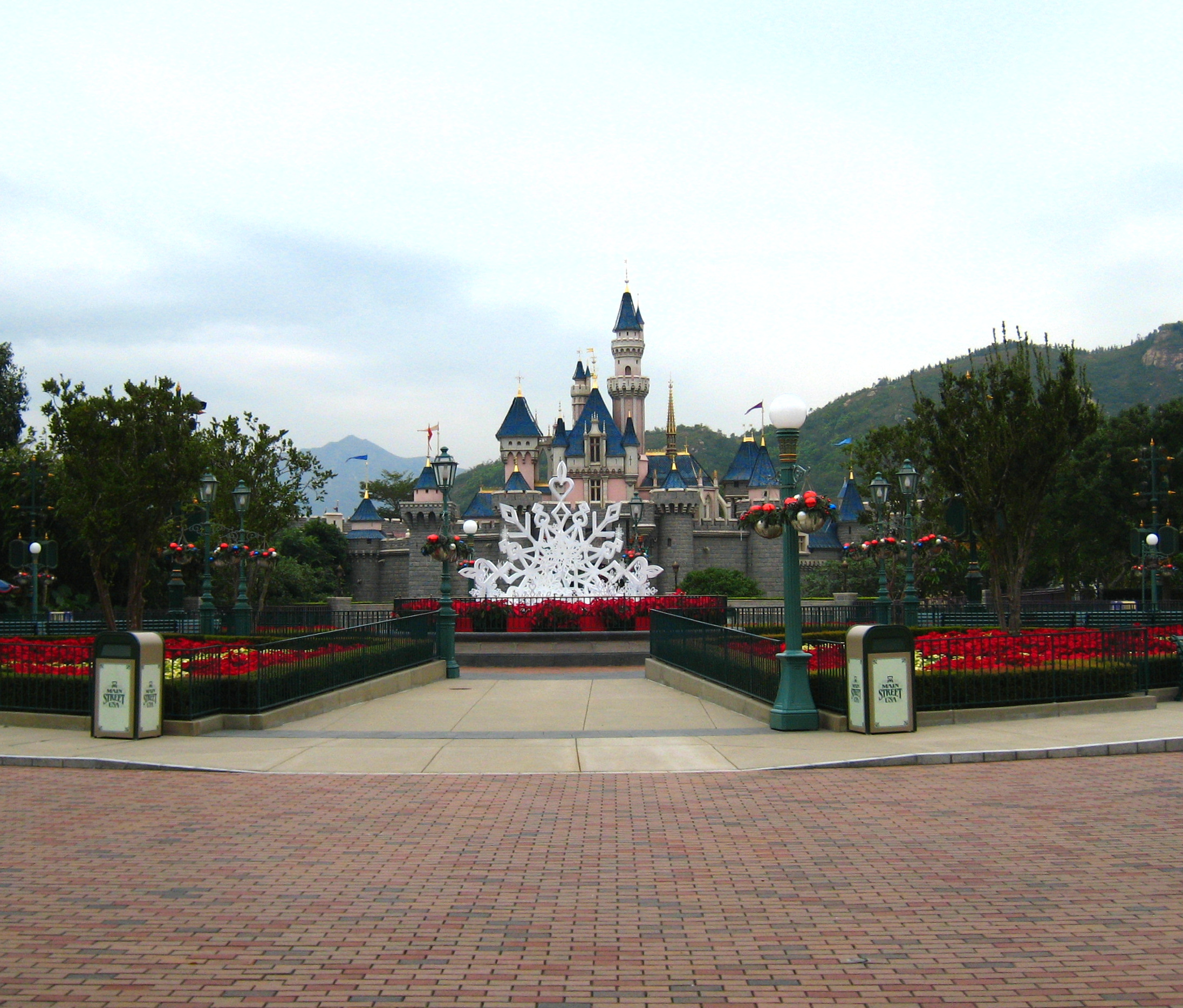 Sleeping Beauty Castle in Hong Kong Disneyland